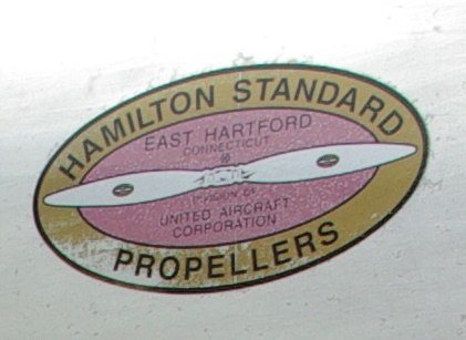 Logo of the company Hamilton Standard on a propeller's blade.